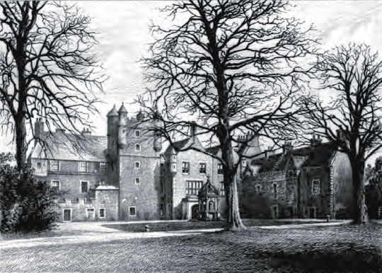 Drawing from the book, Memoir of Alexander Seaton by George Seaton, Edinburgh, 1882 between pp. 176 and 177.